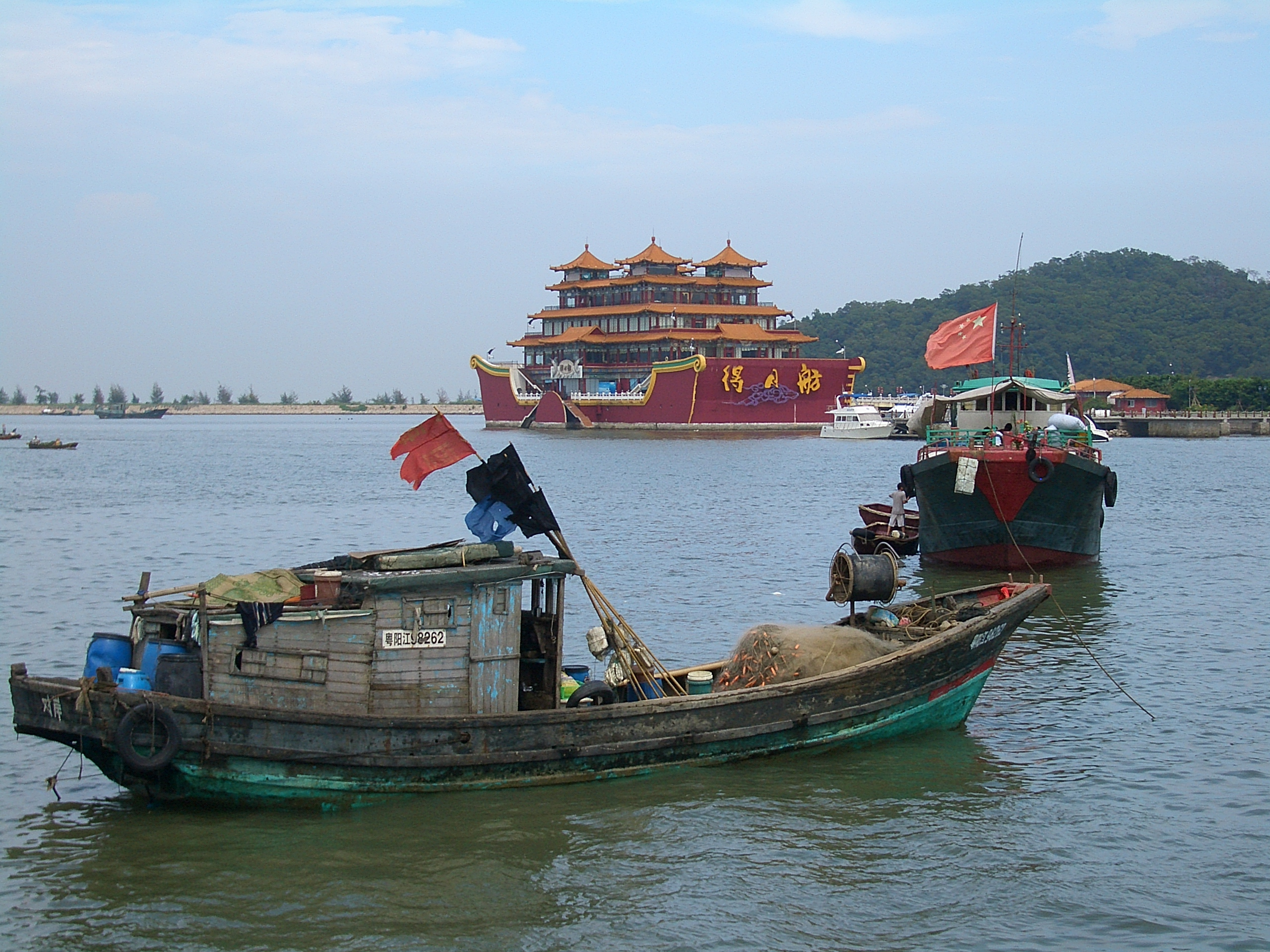 Zhuhai fishing port (north of Yeli Island).